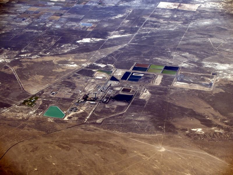 Photo of the Intermountain Power Project (north of Delta, Utah) from the air.